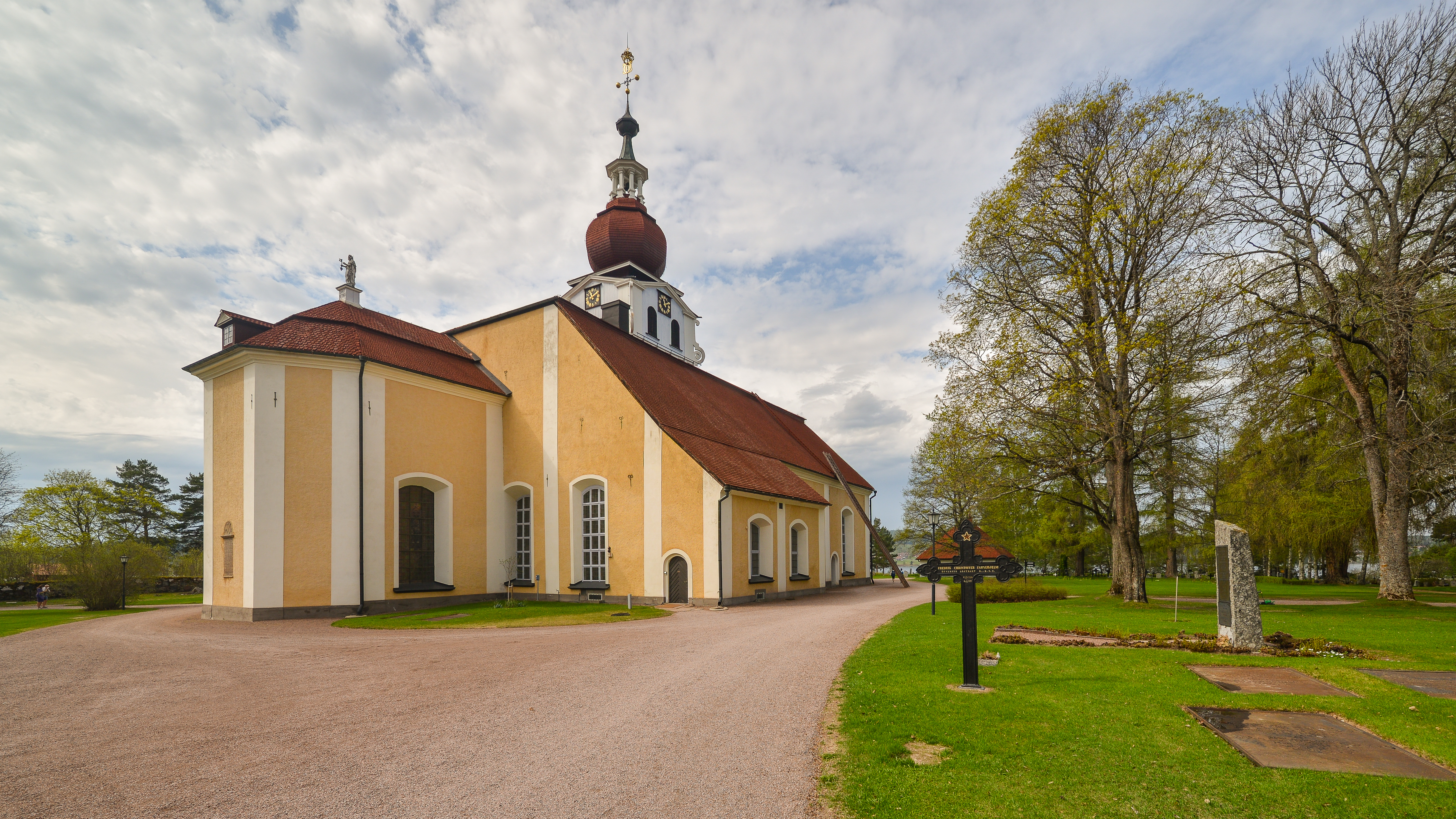 Leksands kyrka (church) in Leksand. Leksand parish, Diocese of Västerås, Church of Sweden.